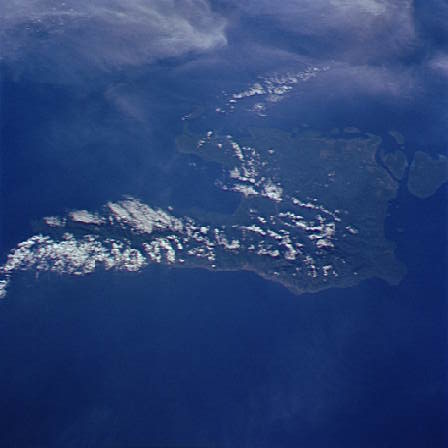 Espiritu Santo as seen by the crew of STS068 aboard the Space Shuttle Endeavour on October 3rd, 1994. Unique photo number is STS068-215-75.